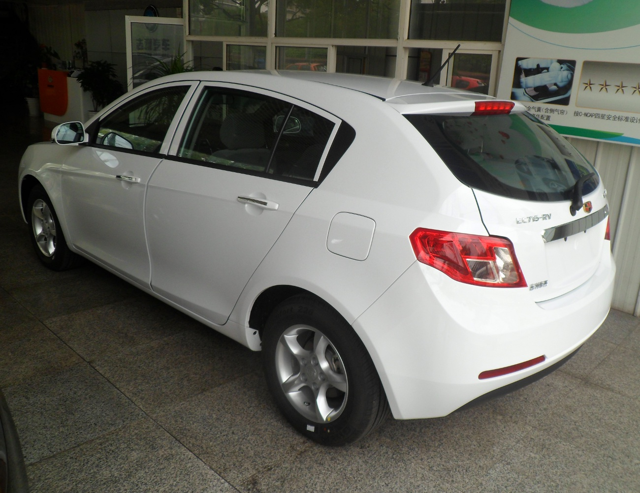 Emgrand EC7-RV photographed in Shanghai, China.